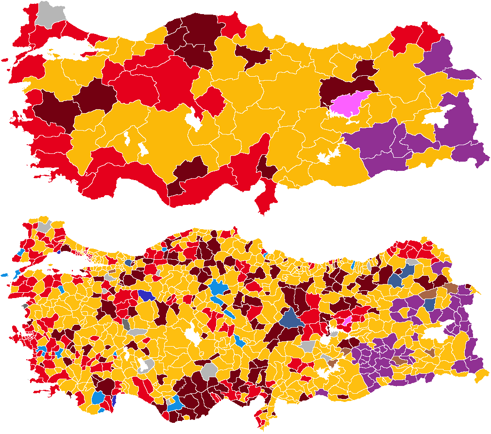 Edited from the original work of Nub Cake, under the CC By-SA 3.0 license. Map shows districts for the 2019 Turkish Local Elections. File:Turkish_local_election_2014.png